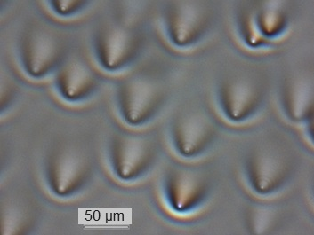 Waveguides in silica glass created by accumulated self-focusing.